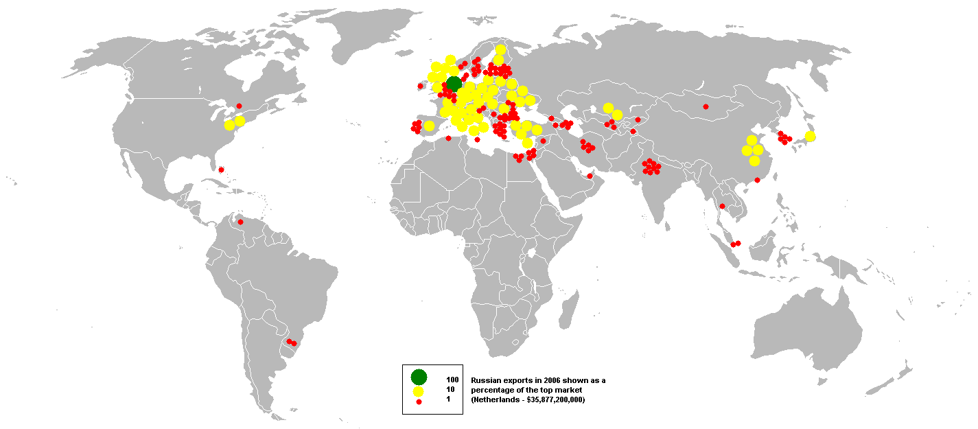 This bubble map shows the global distribution of Russian exports in 2006 as a percentage of the top market (Netherlands - $35,877,200,000). This map is consistent with incomplete set of data too as long as the top producer is known. It resolves the accessibility issues faced by colour-coded maps that may not be properly rendered in old computer screens. Data was extracted on 19th September 2007 from Based on Image:BlankMap-World.png